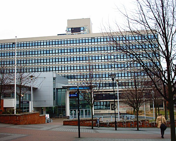 Owen Building, part of Sheffield Hallam University.